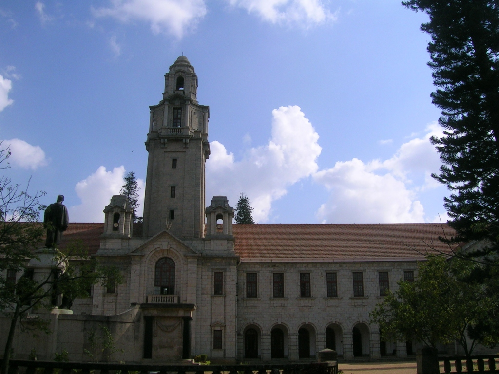 IISc Bangalore